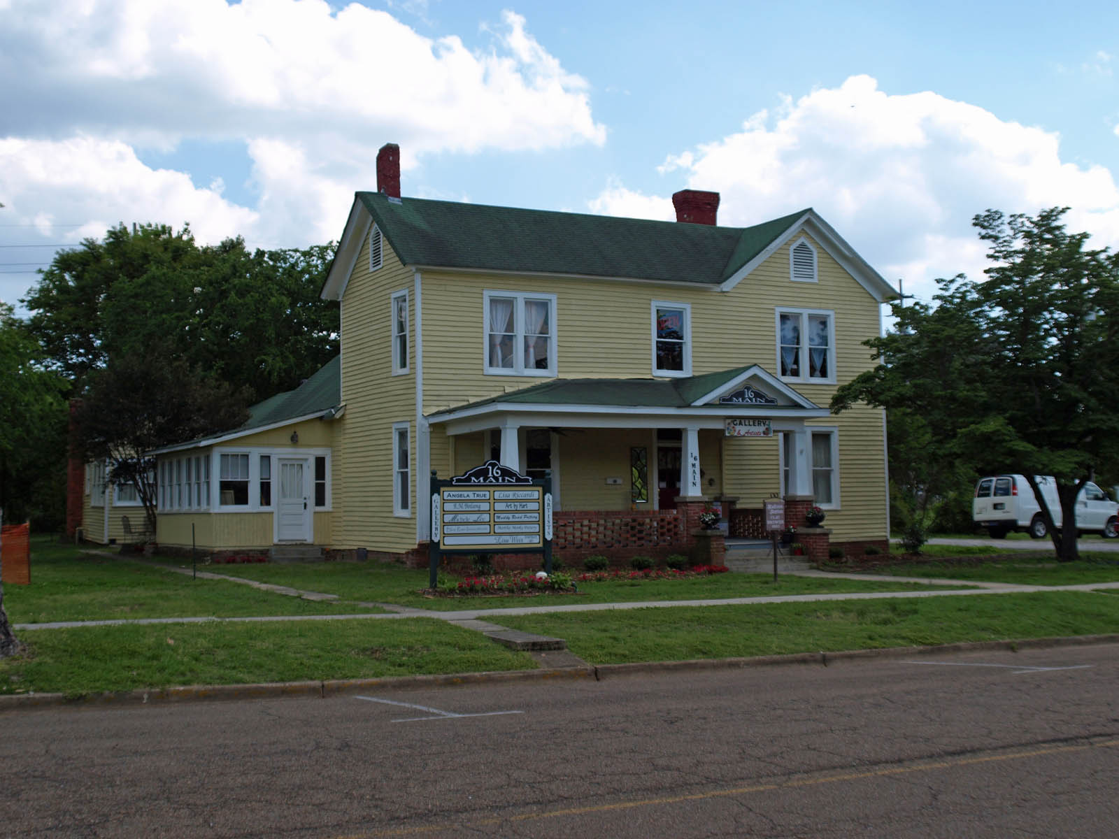 16 Main Street in Madison, Alabama; part of the Madison Station Historic District.